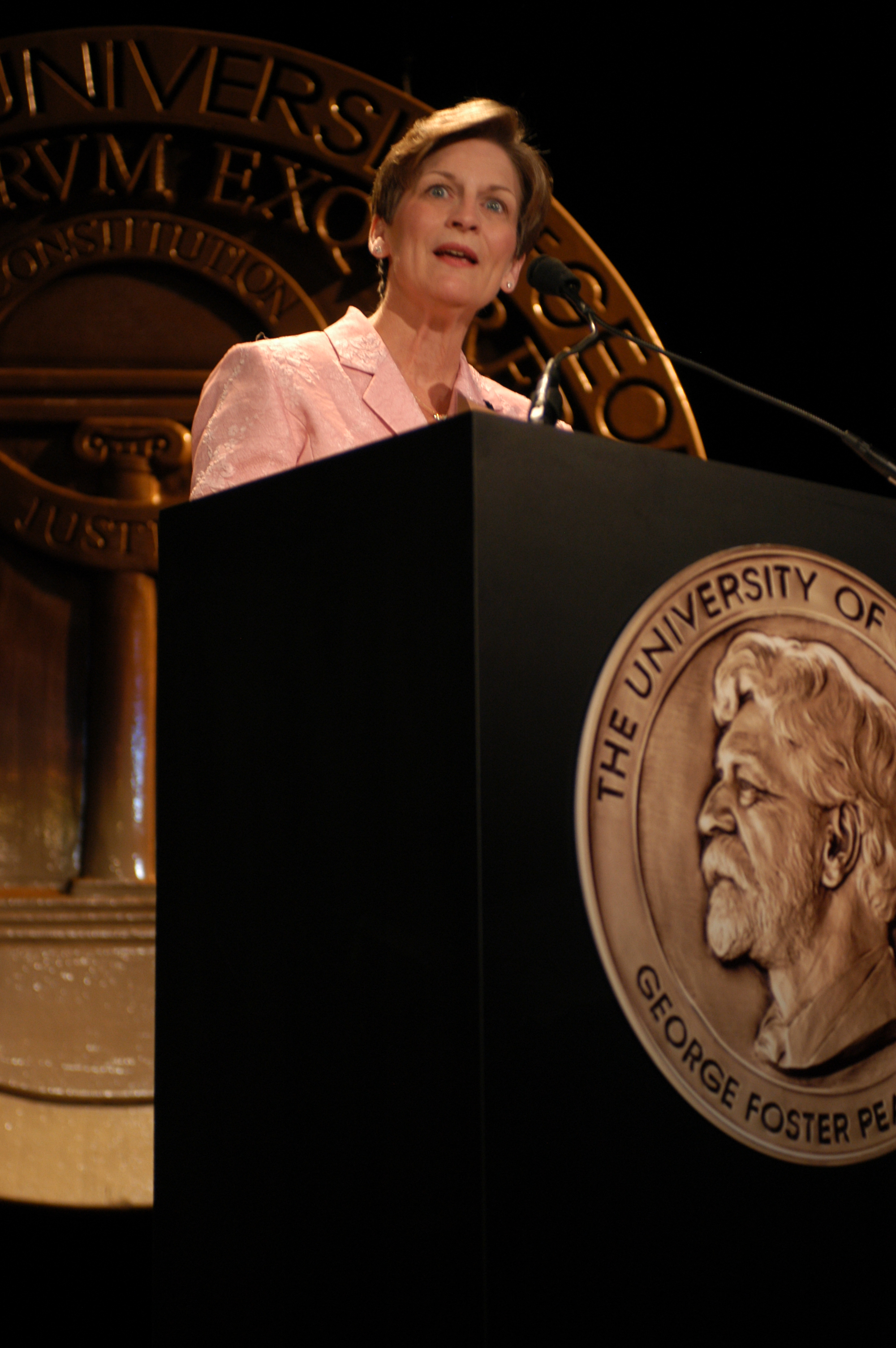 PHOTO CREDIT: ANDERS KRUSBERG / PEABODY AWARDS Mary Perdue at the 63rd Annual Peabody Awards Luncheon Waldorf=Astoria Hotel May 17, 2004